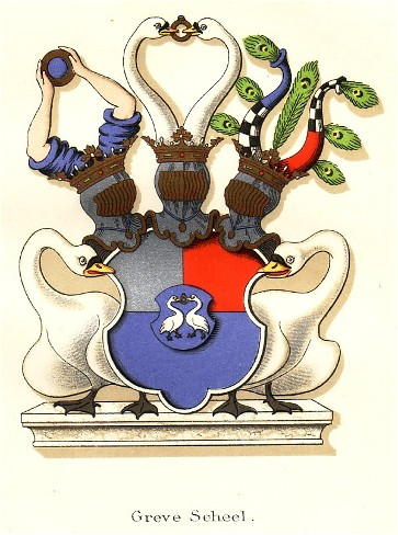 Coat of arms of the comital Scheel family (Skeel)